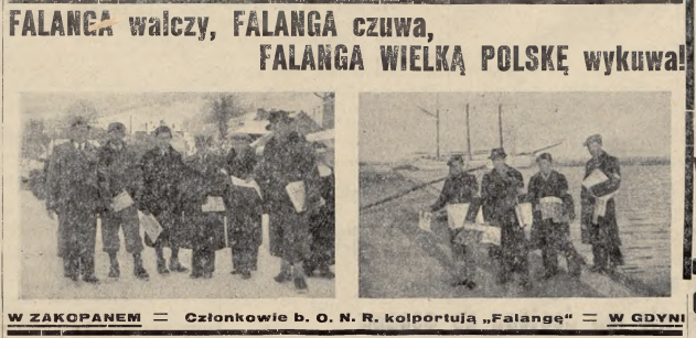 Part of Falanga journal published by polish organization National Radical Camp Falanga